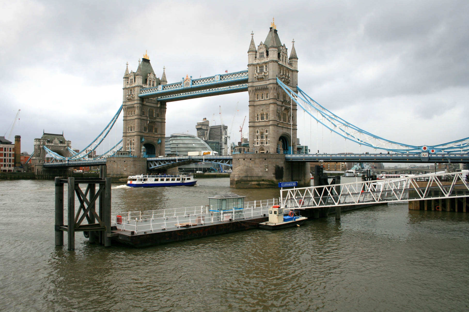 St Katharine pier on the River Thames, London, UK, with Tower Bridge in the background.